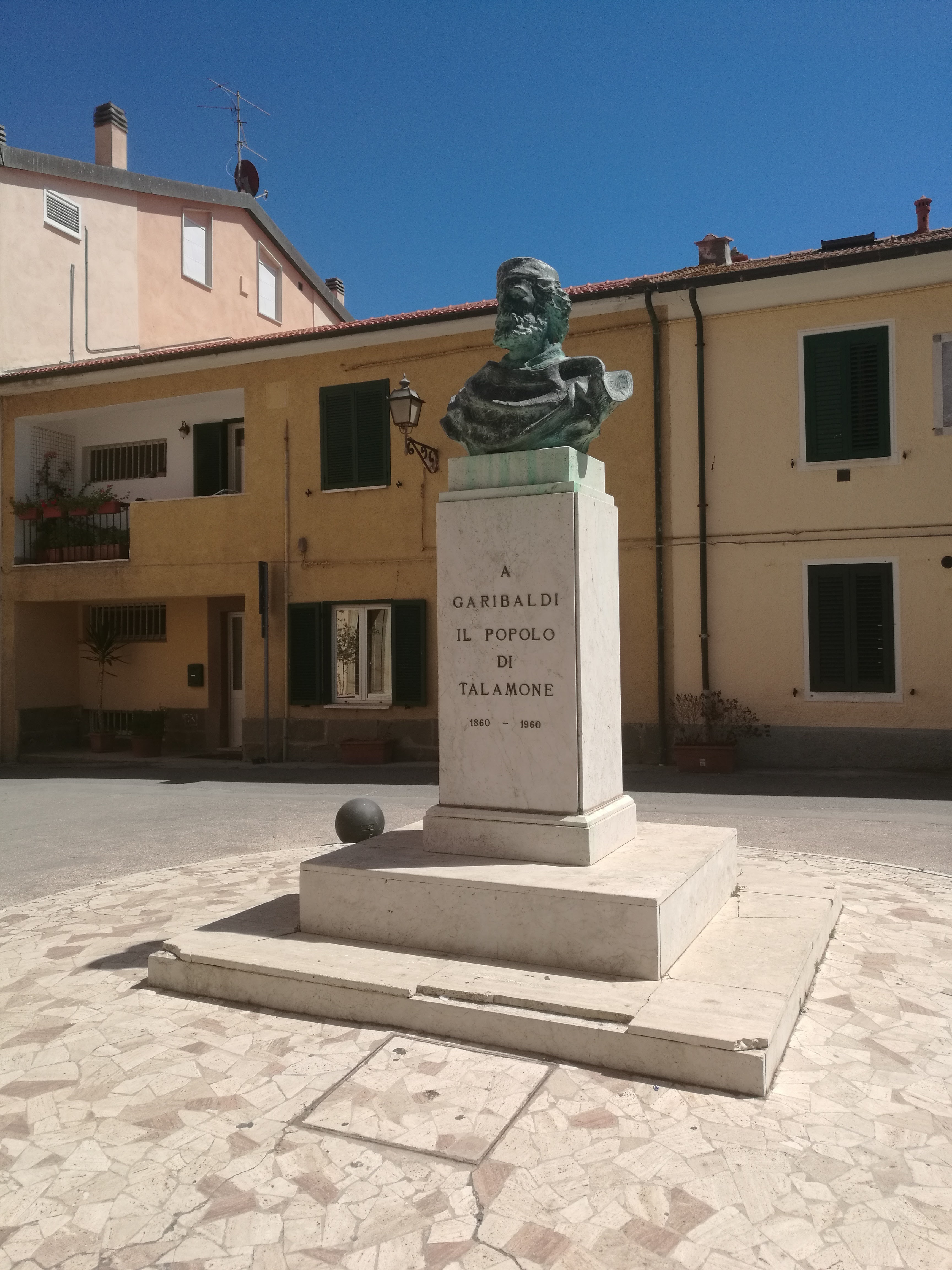 Garibaldi monument in Talamone